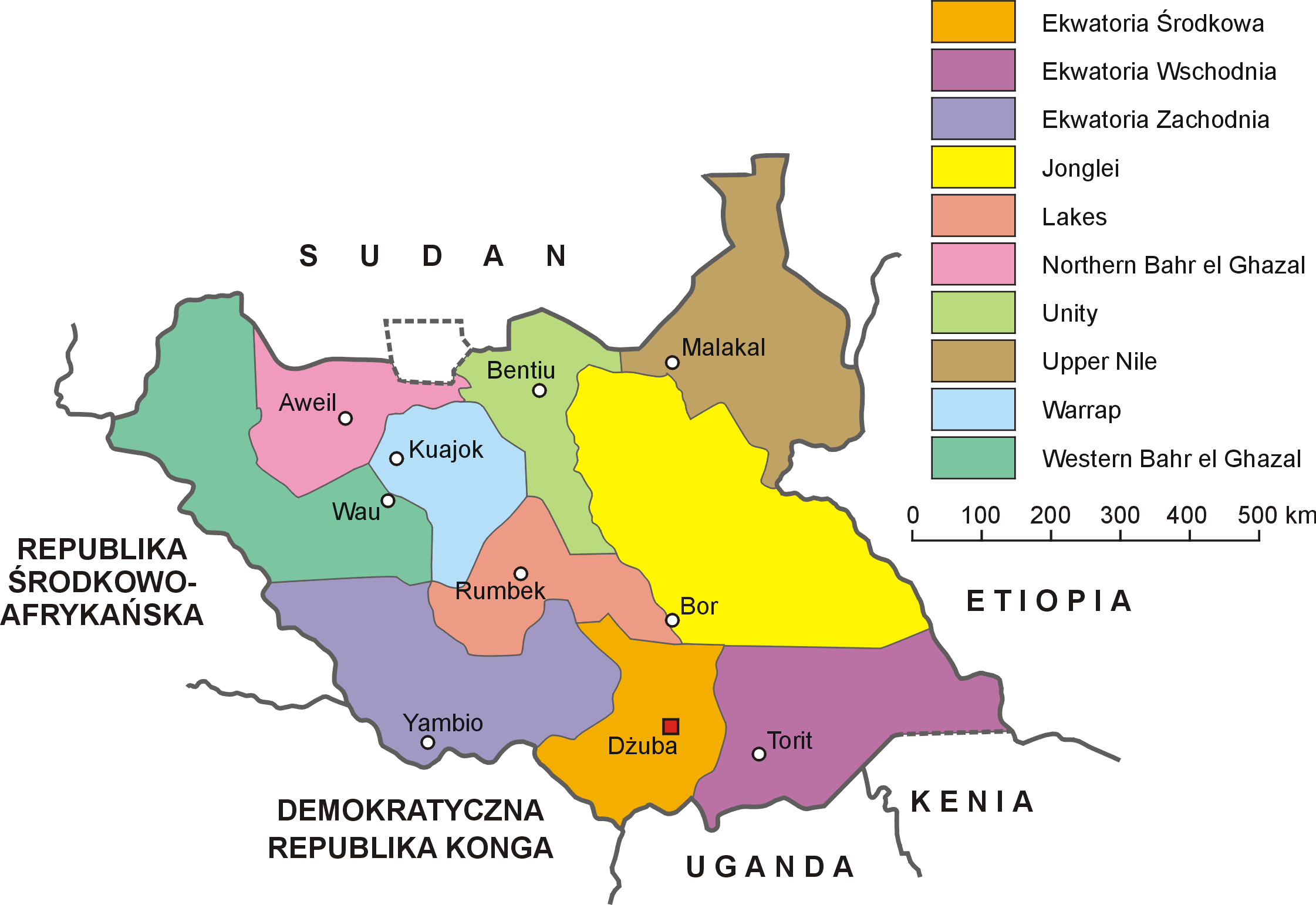 Administrative map of South Sudan